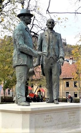 Double monument inaugurated in Brasov, Romania, on 8 november 2019